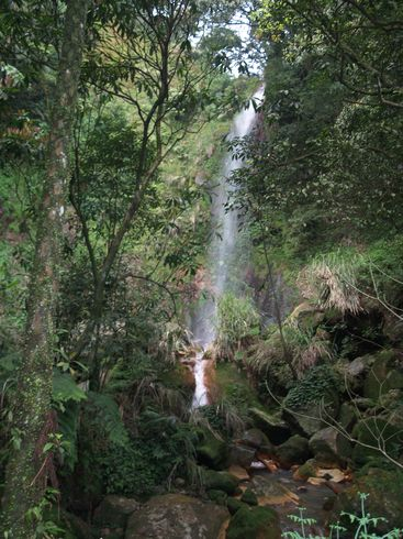 Yangmingshan National Park Jyuansih Waterfall 陽明山 絹絲瀑布 taken by ResTpeTw on March 20th 2008.